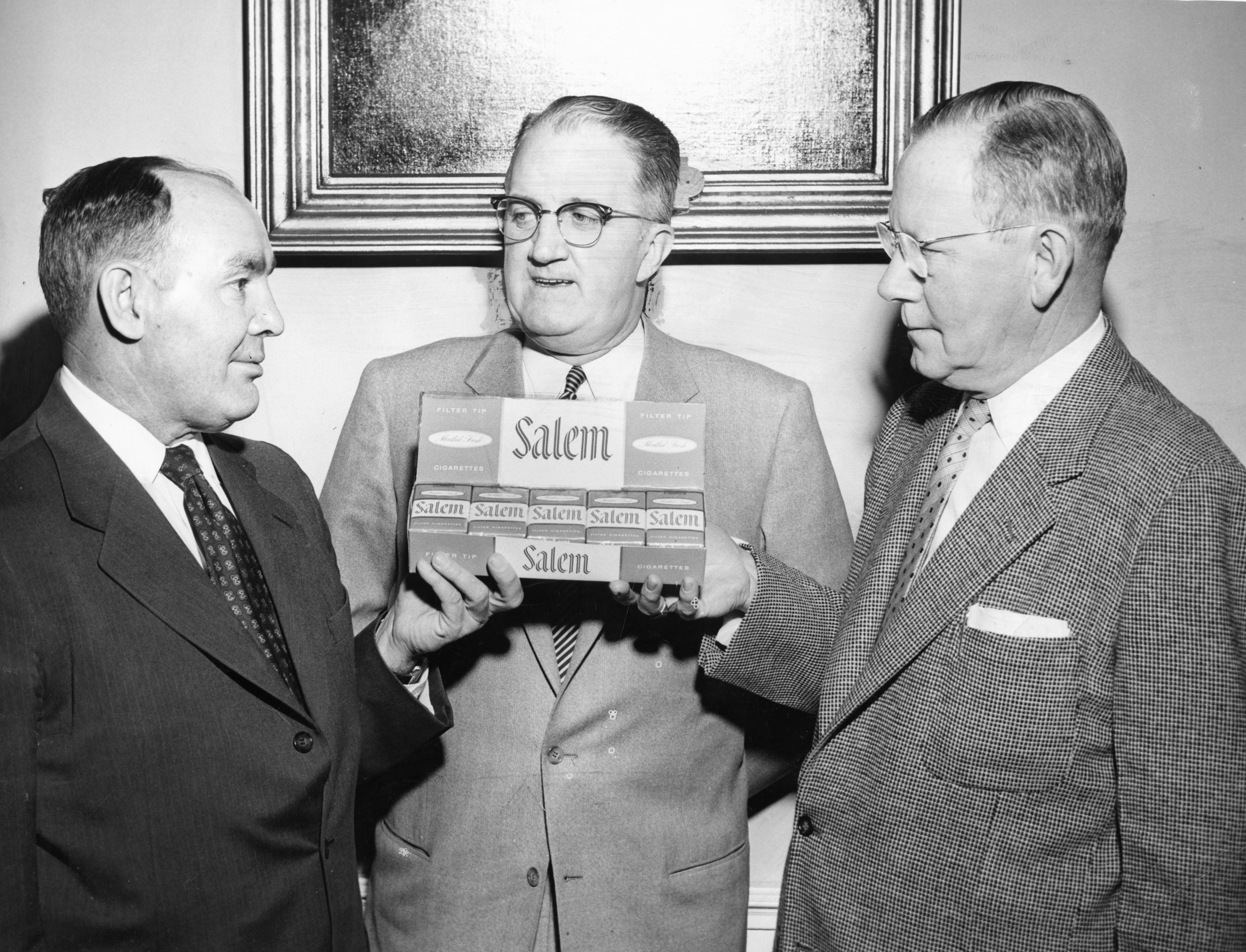 Salem, Massachusetts "Mayor Francis X. Collins receives first carton of R.J. Reynold's new menthol-fresh Salem Cigarette from F.L. Hanna, New England Department Manager. Looking on (center) is J.W. Norton, Boston Division." SCPH 05-049